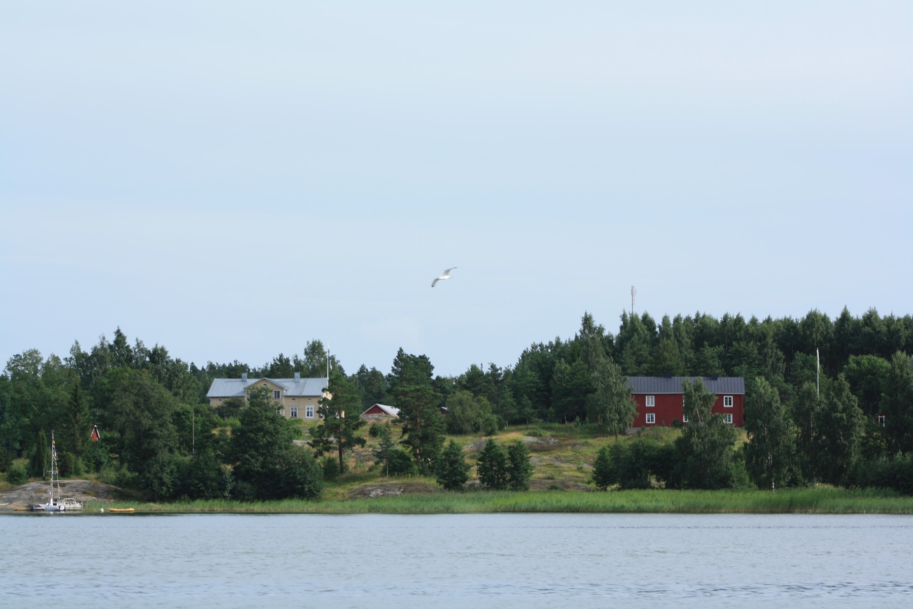 Västergård and Östergård farms on Torsö island, Raseborg, Finland